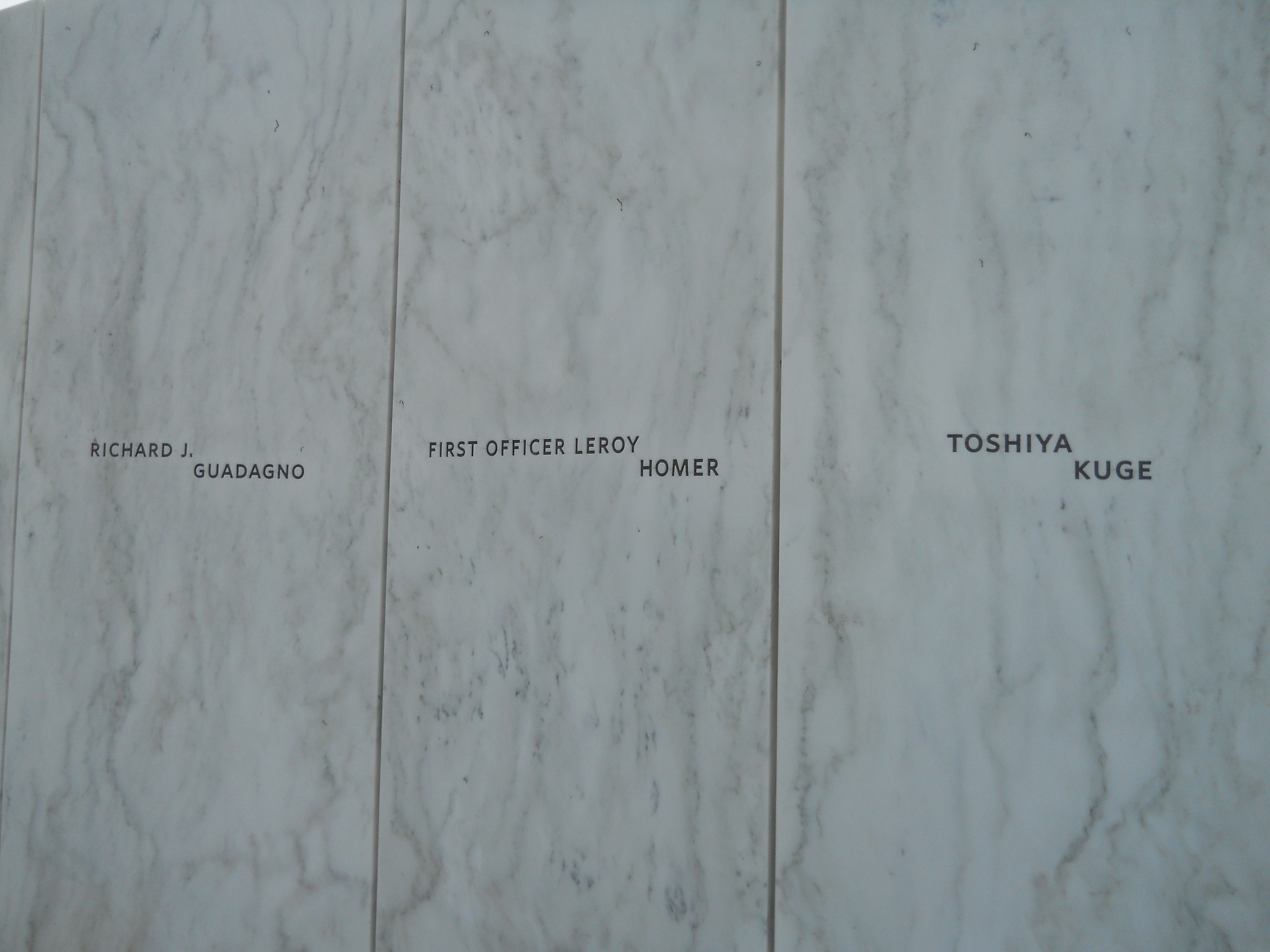 Flight 93 National Memorial, West of Sky Line Road, Shanksville vicinity Stonycreek Township